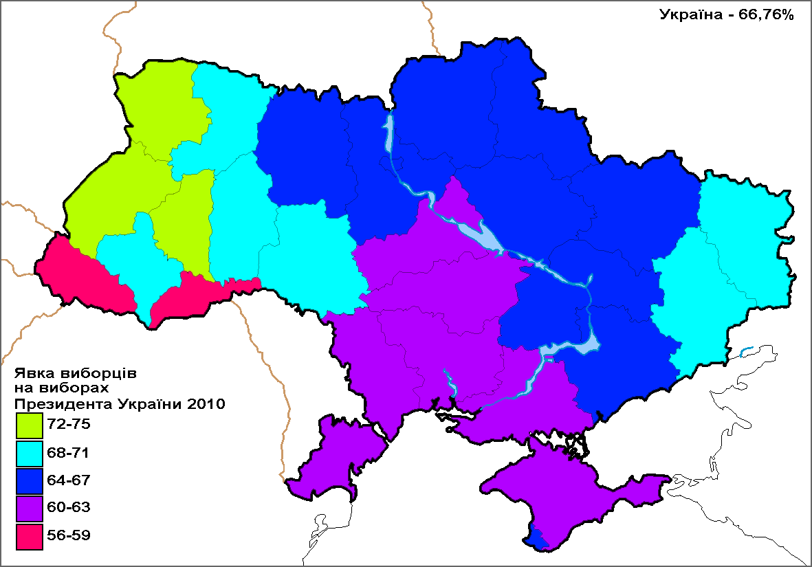 Voter turnout at Ukrainian presidential election